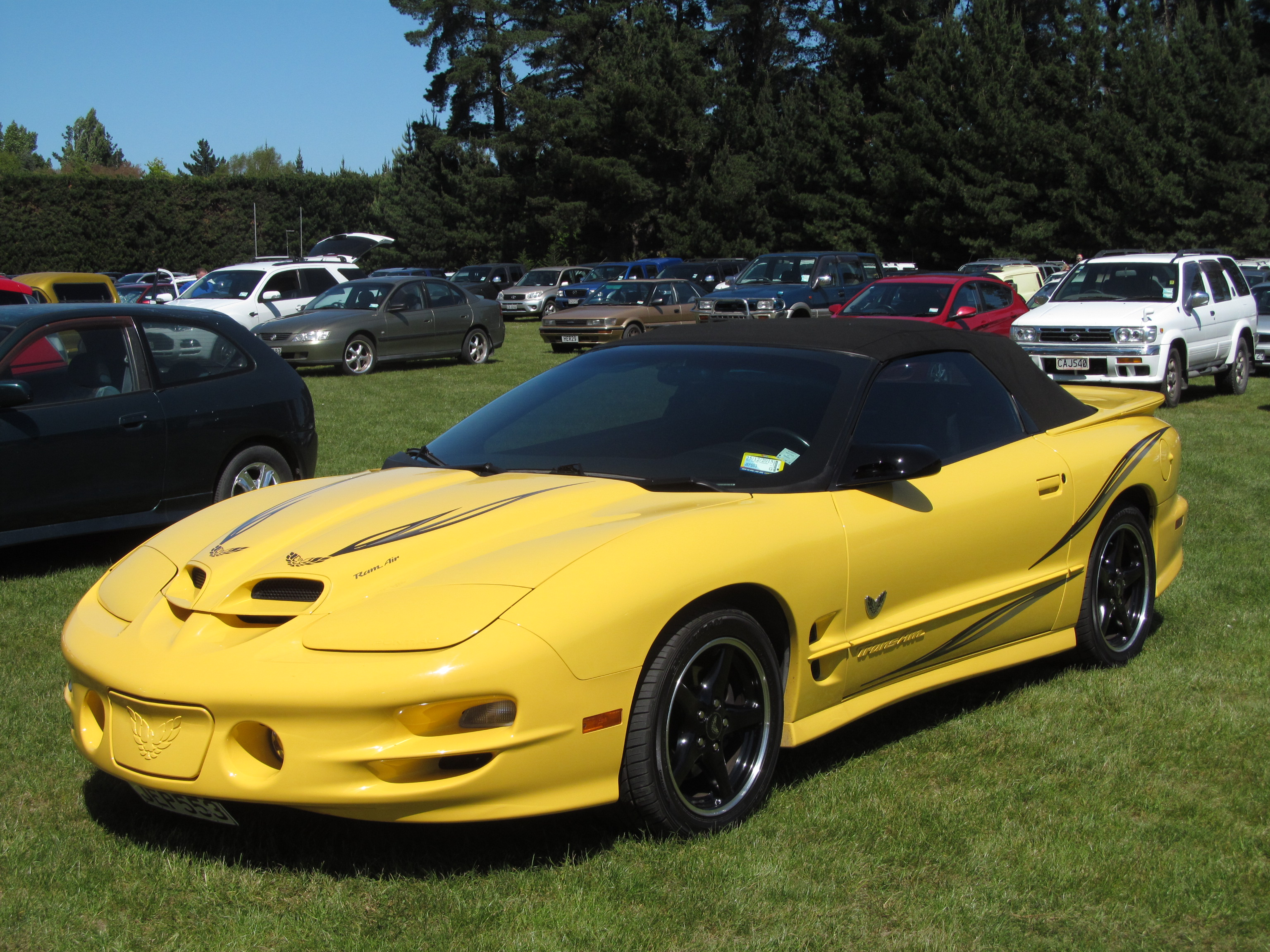 Phew! A rare special edition from the last year of (original) Camaro/Firebird production. The Collector's edition was only available in yellow and came with black stripes, mirrors and the black painted five-spoke alloys you see here.